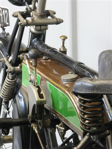 Gearchange on a Sun 499 cc side valve single combination from 1912.